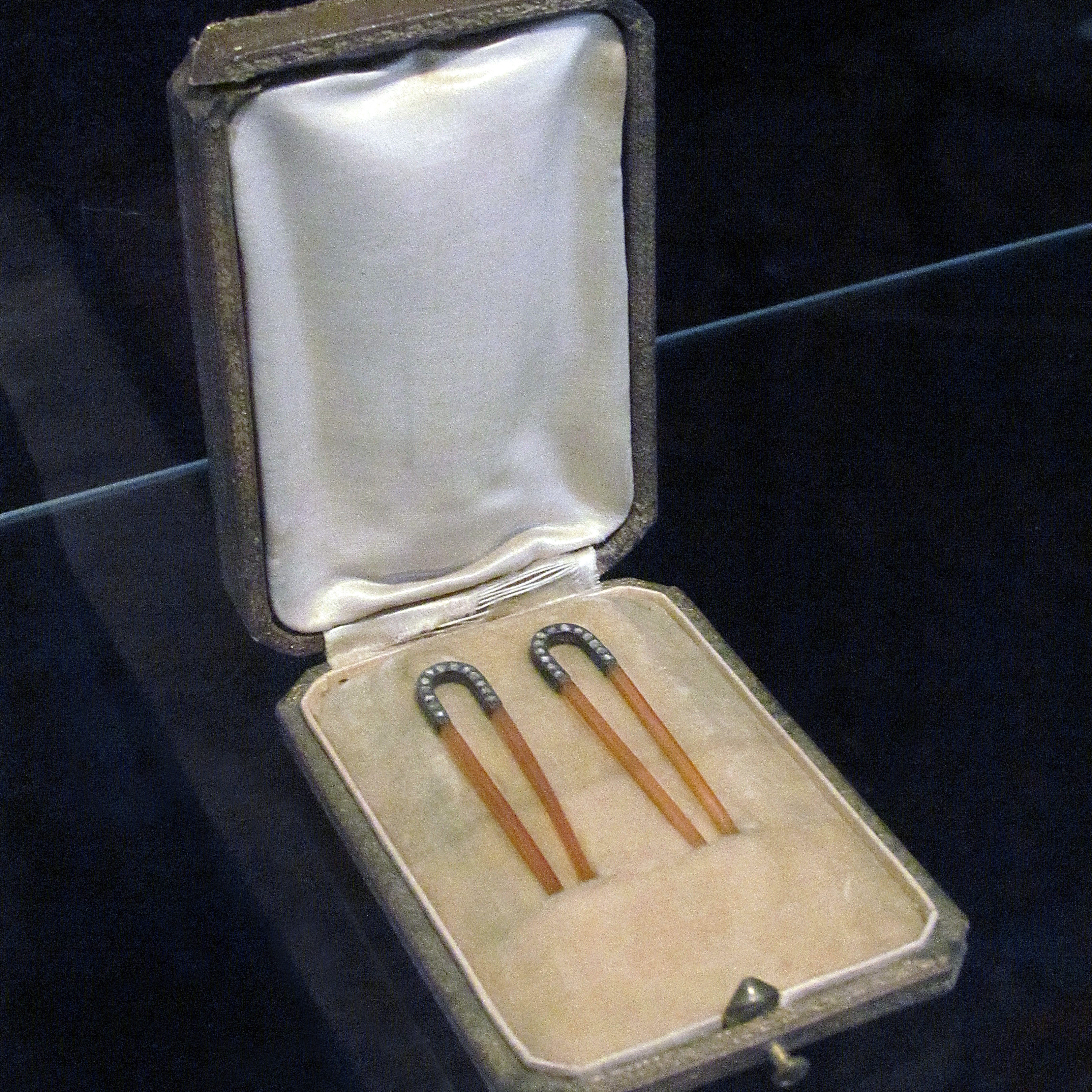 Princess Ljubica hair pins